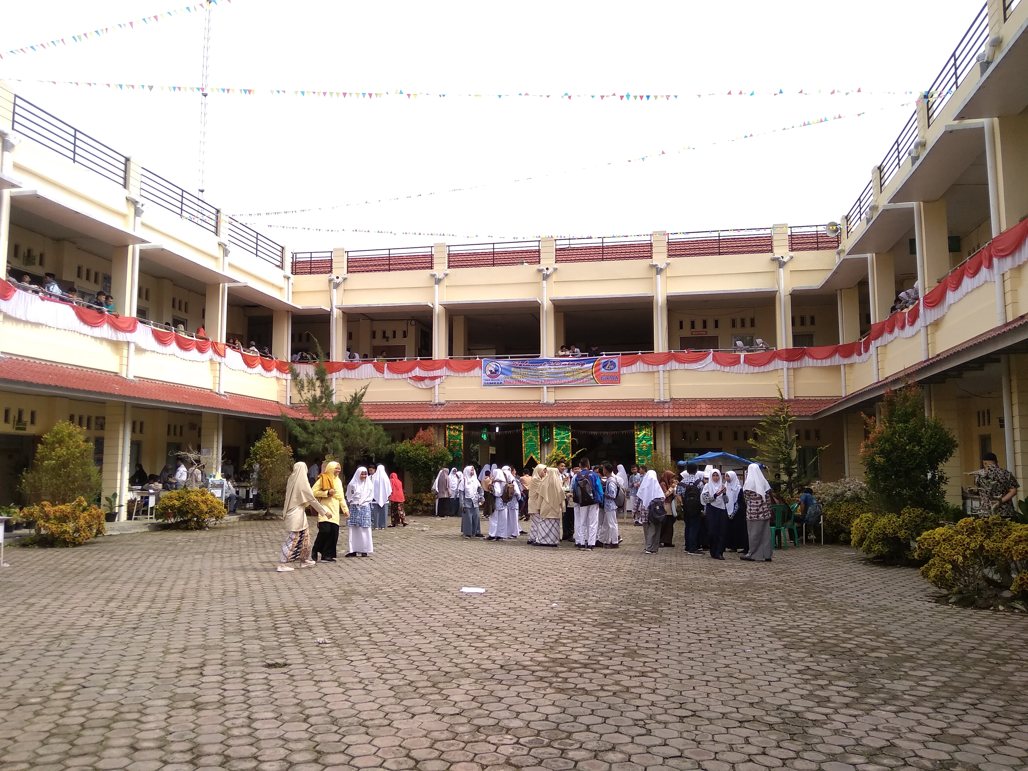 Senior High School 1 West Sumatra, a school located in Padang Panjang city, West Sumatra, Indonesia.